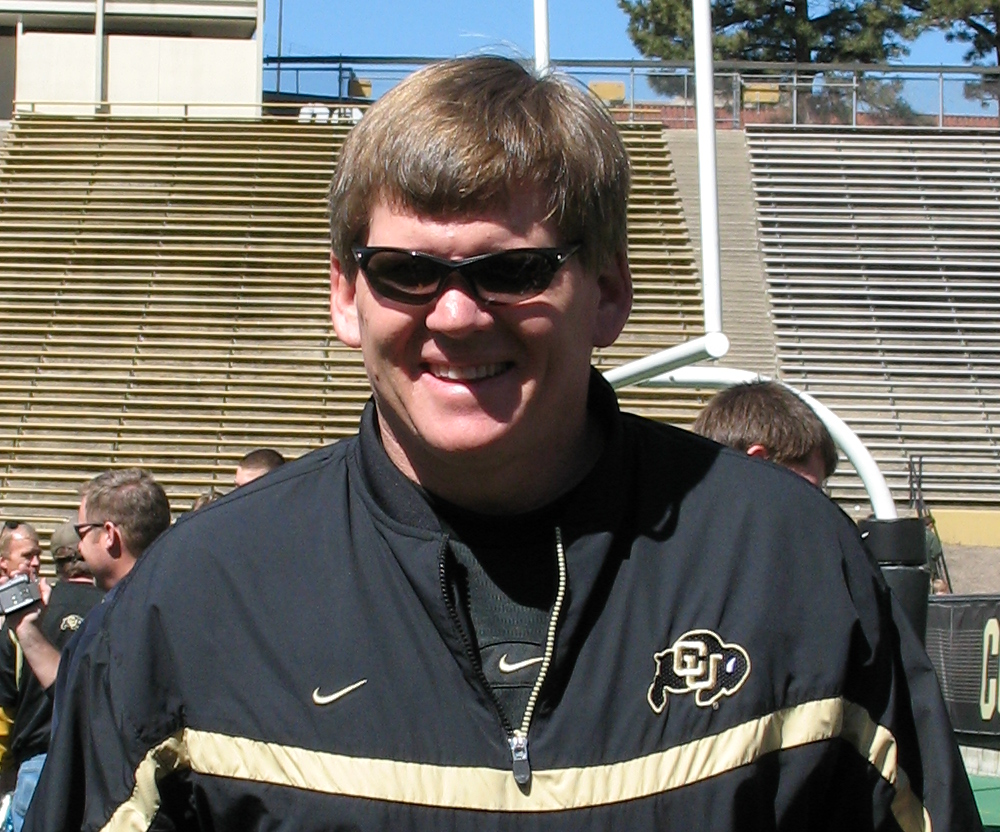 Dan Hawkins, head coach of the Colorado Buffaloes football team.